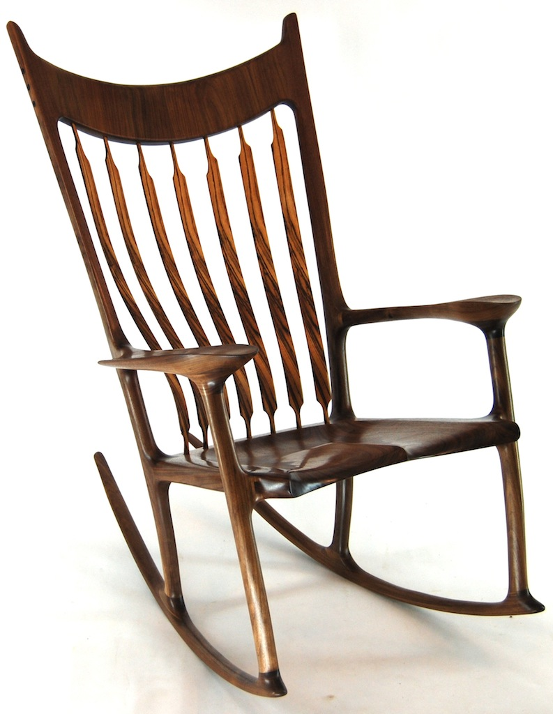 Maloof inspired custom wooden rocking chair built from Canadian Black Walnut and African Zebrawood. This rocking chair features the style of Sam Maloof with the addition of flexible back braces and a coopered headrest.